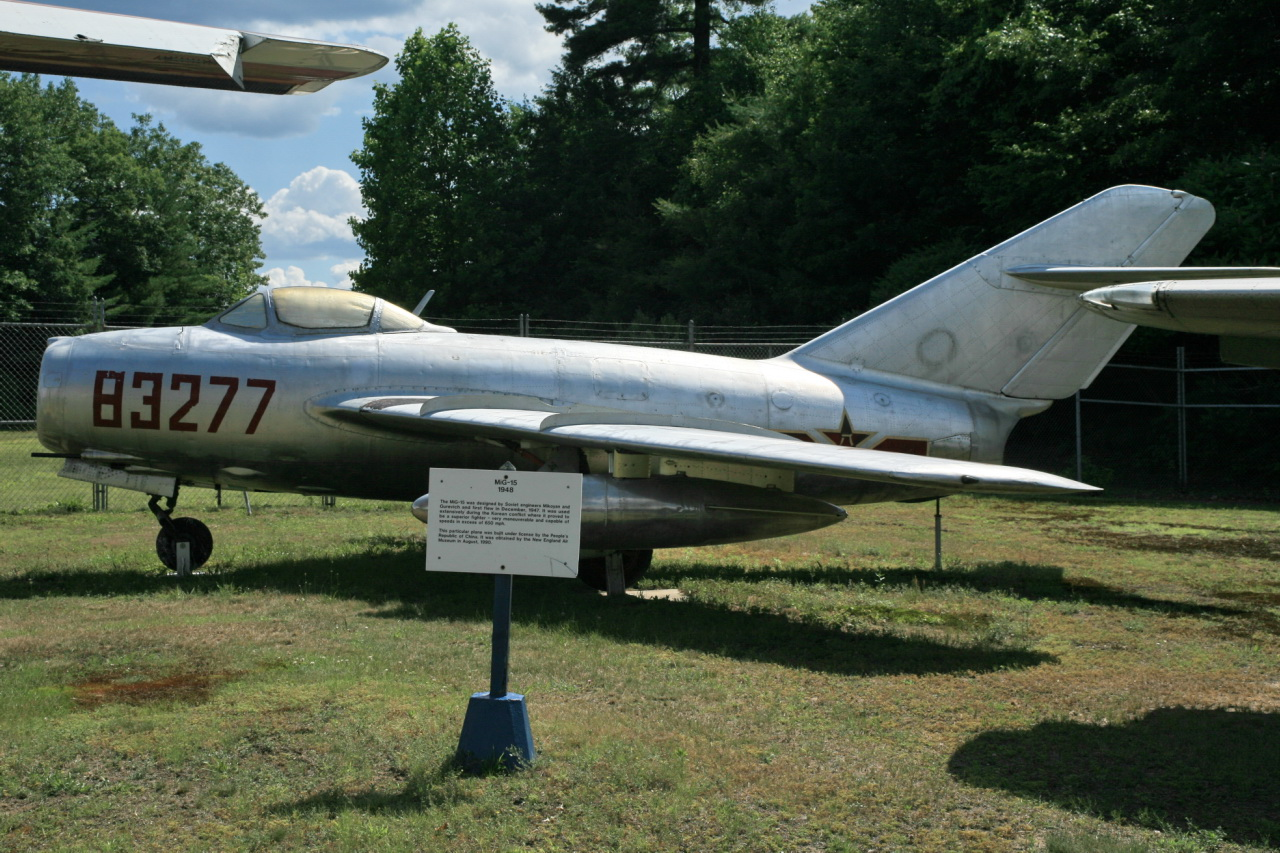 The MiG-15 was designed by Soviet engineers Mikoyan and Gurevich and first flew in December, 1947. It was used extensively during the Korean conflict where it proved to be a superior fighter - very maneuverable and capable of speeds in excess of 650 mph. This particular plane was built under license by the People's Republic of China.